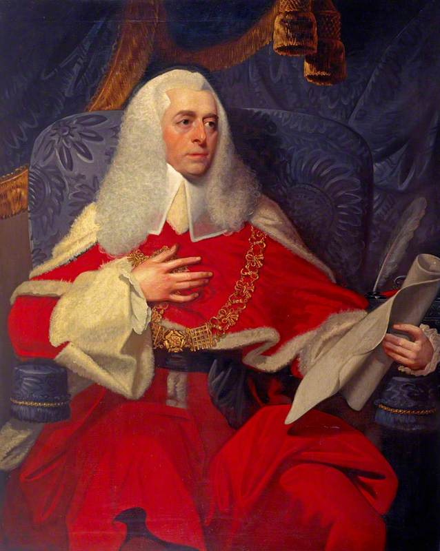 Alexander Wedderburn, 1st Earl of Rosslyn (then Lord Loughborough), Chief Justice of the Common Pleas